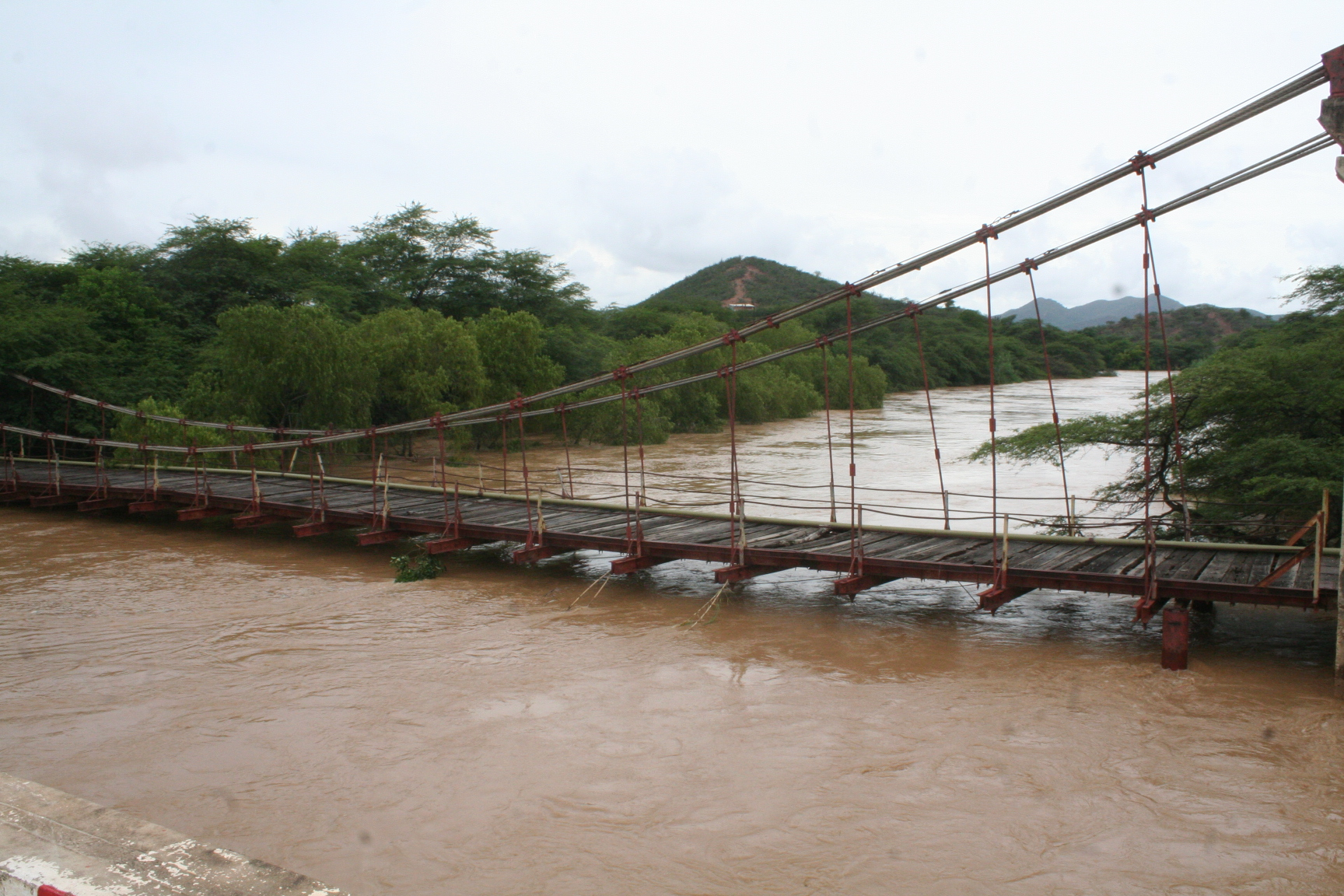 Bridge across Morere or Tocuyo river in Camacaro parroquia; compare with [1] [2]